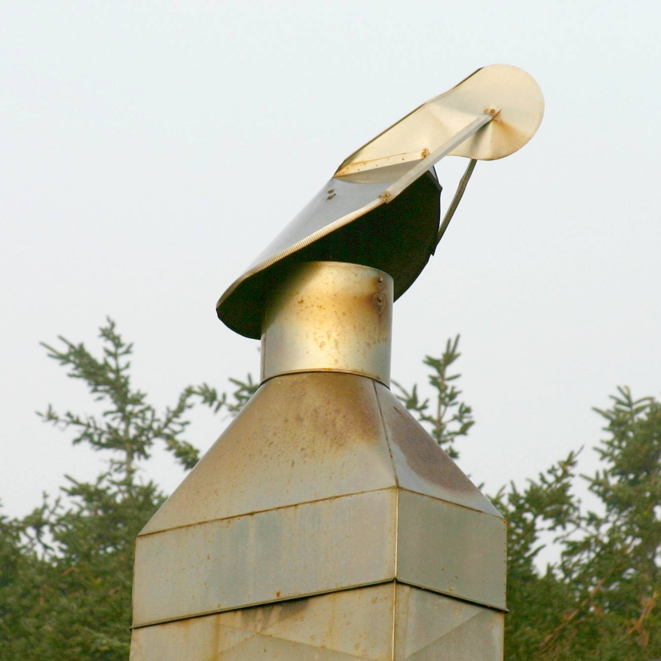 Common wind chimney cap found on homes along the Oregon coast. Photo taken by Stephen Inoue.